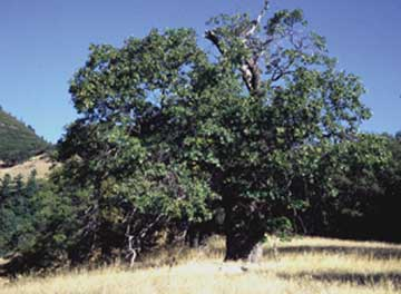 California Black Oak